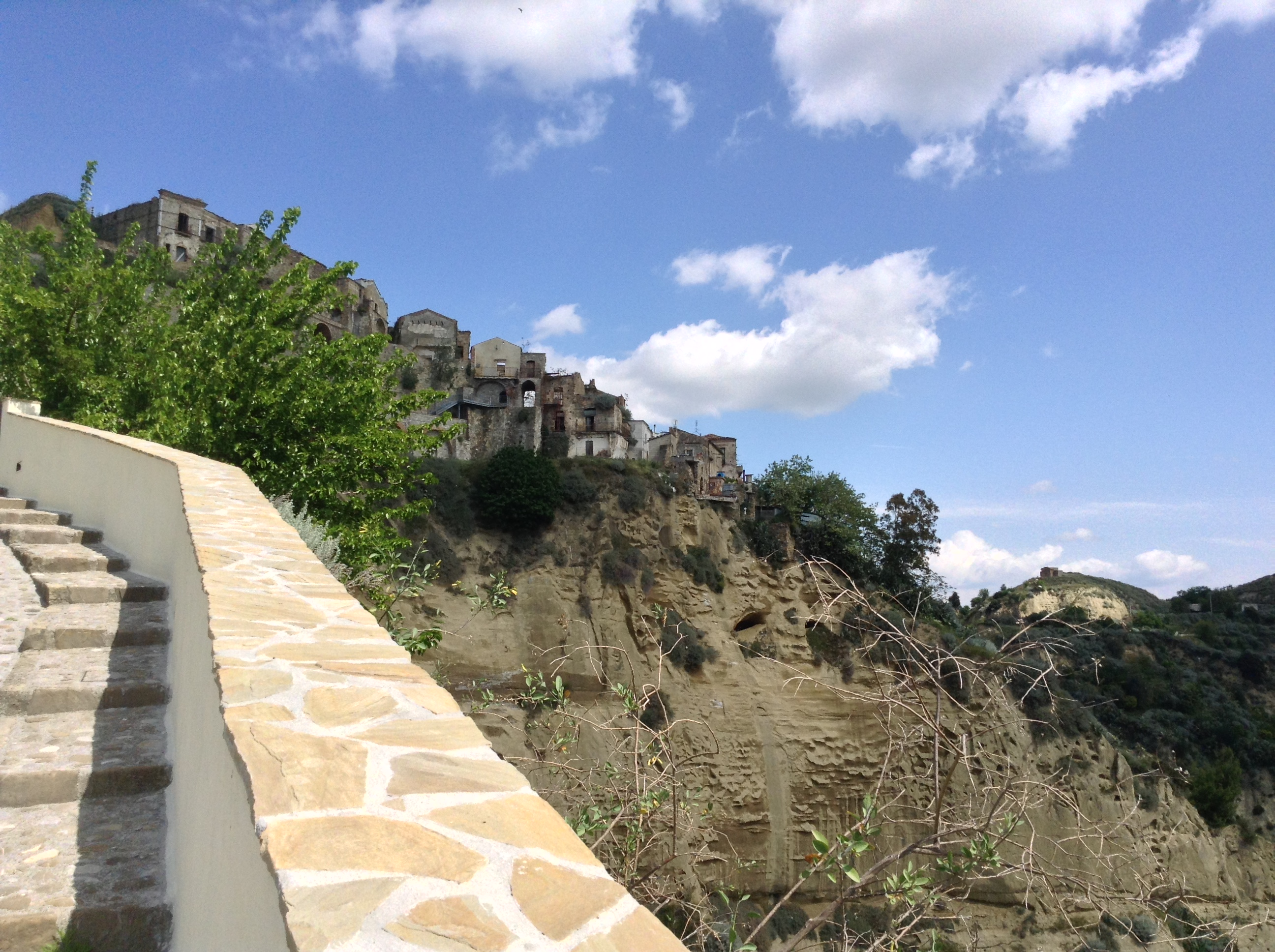 view from the Gradinata (flight of steps) to Rabatana